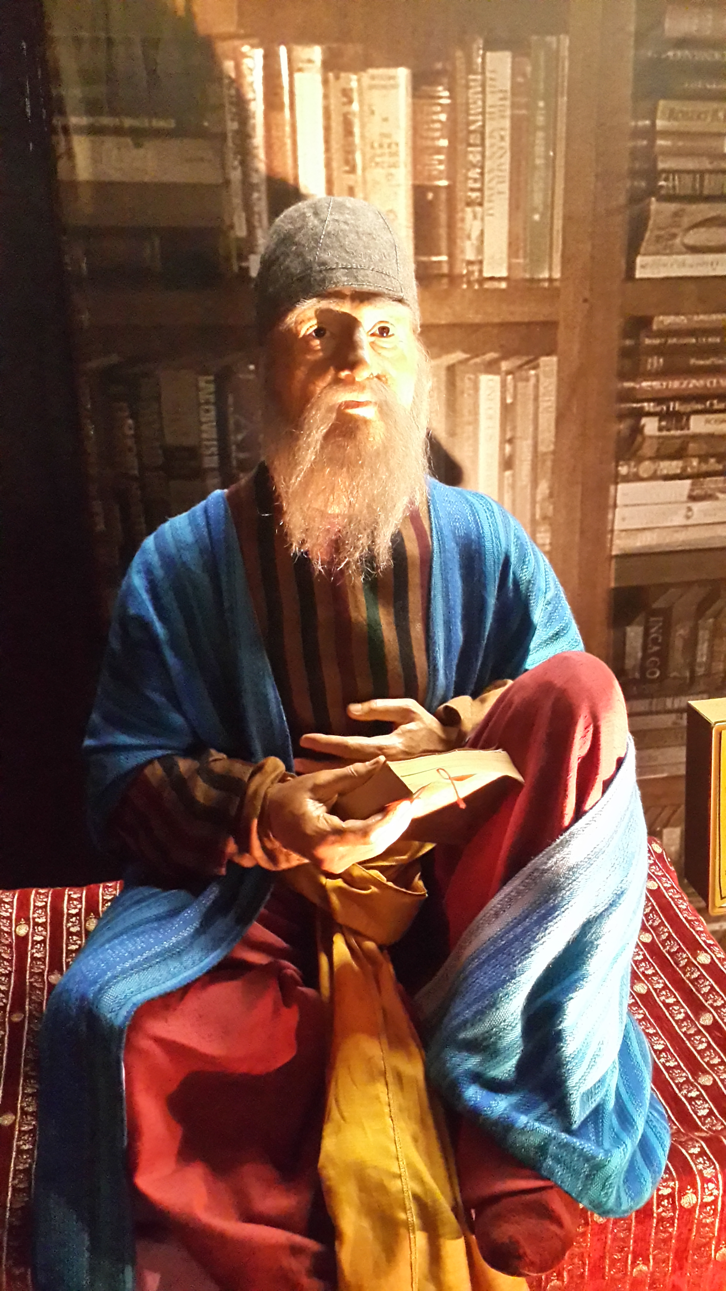 Wax statue of Muslim Polymath Mahmud al-Kashgari on display at Istanbul Sapphire, İstanbul, Turkey.